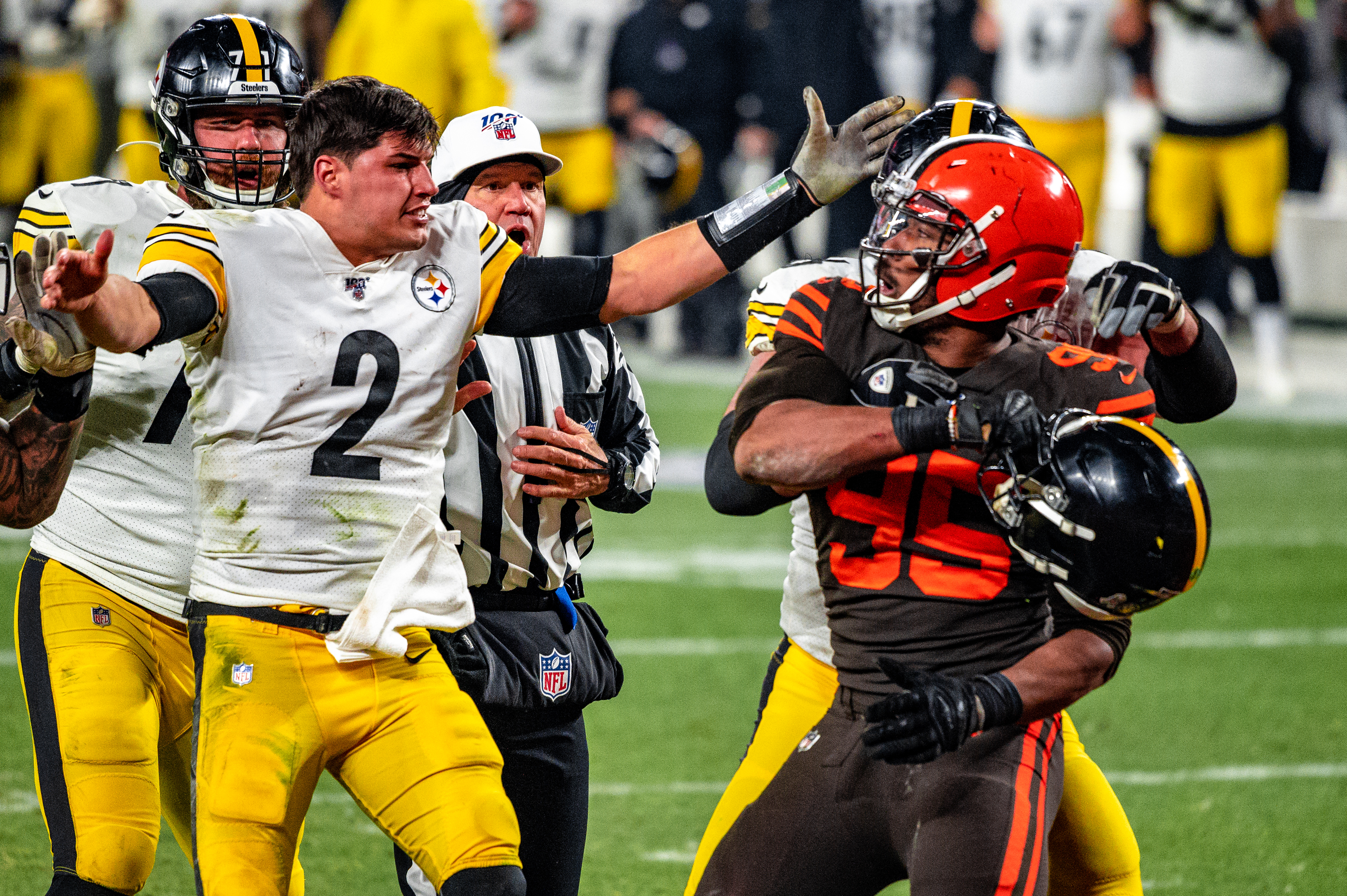 Mason Rudolph (left) of the Pittsburgh Steelers reacts immediately after Myles Garrett (right) of the Cleveland Browns hits him in the head with his own helmet after the quarterback allegedly used a racial slur.